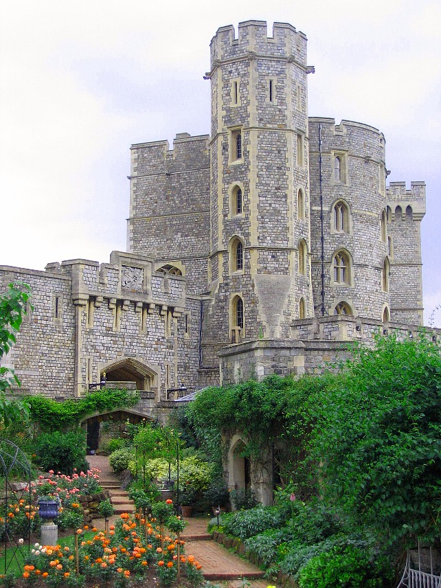 Windsor Castle, Windsor, Berkshire, England